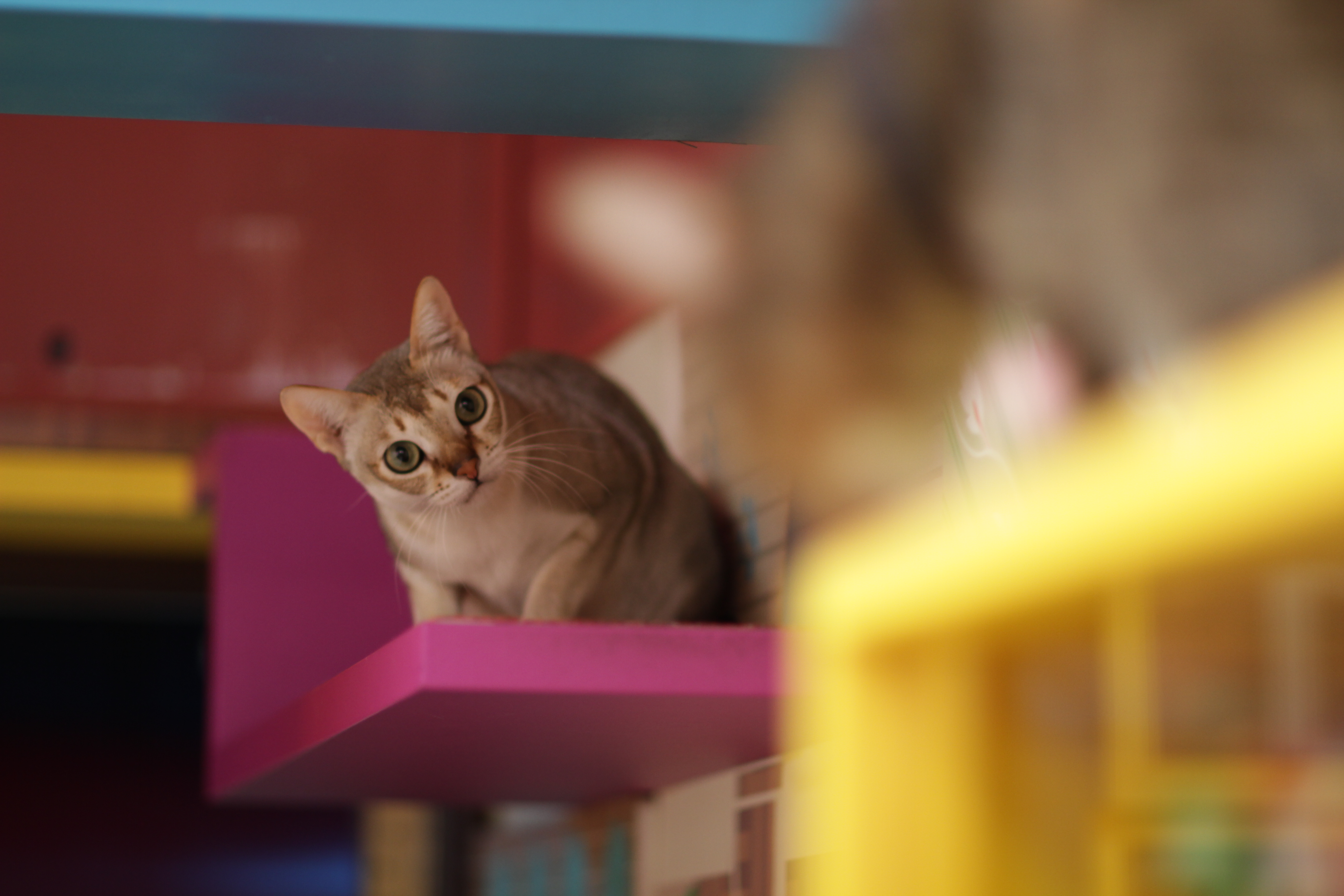 Info of the cat: Name: Rusk Type: Singapura Gender: Male Taken at cat cafe "Nekobukuro" Canon EOS 7D + Canon EF 85mm F1.2L II USM